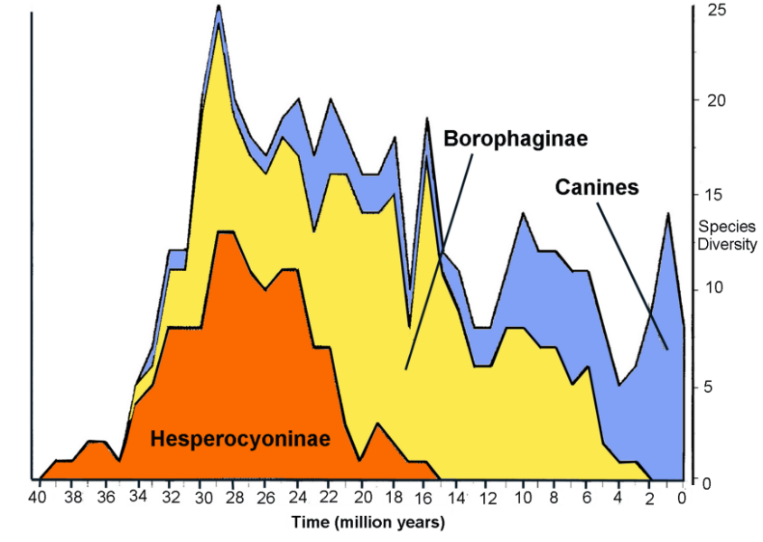 Diagram of Canidae including Hesperocyoninae, Borophaginae, and Canines based on a diagram by Wang and Tedford